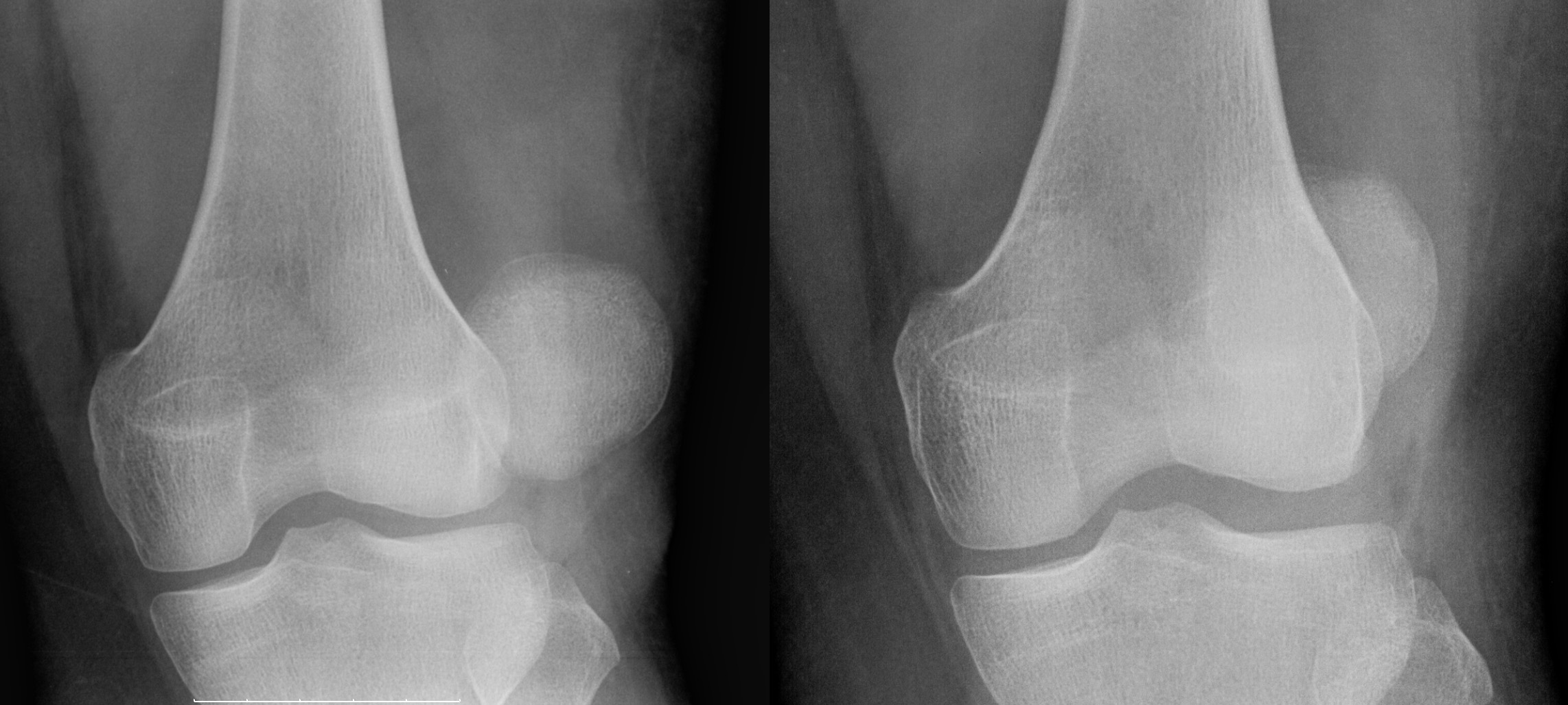 Radiograph of lateral luxation of the patella. Left before treatment, right after reduction. Even after reduction, the patella is still displaced to the outside.